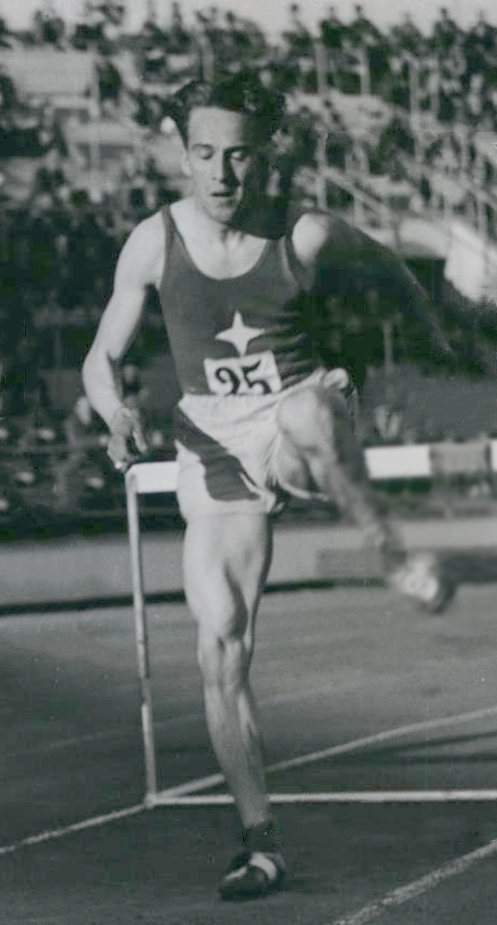 1939 Press Photo B. Storskrubb runs 400m hurdles at Helsinki Olympic Games